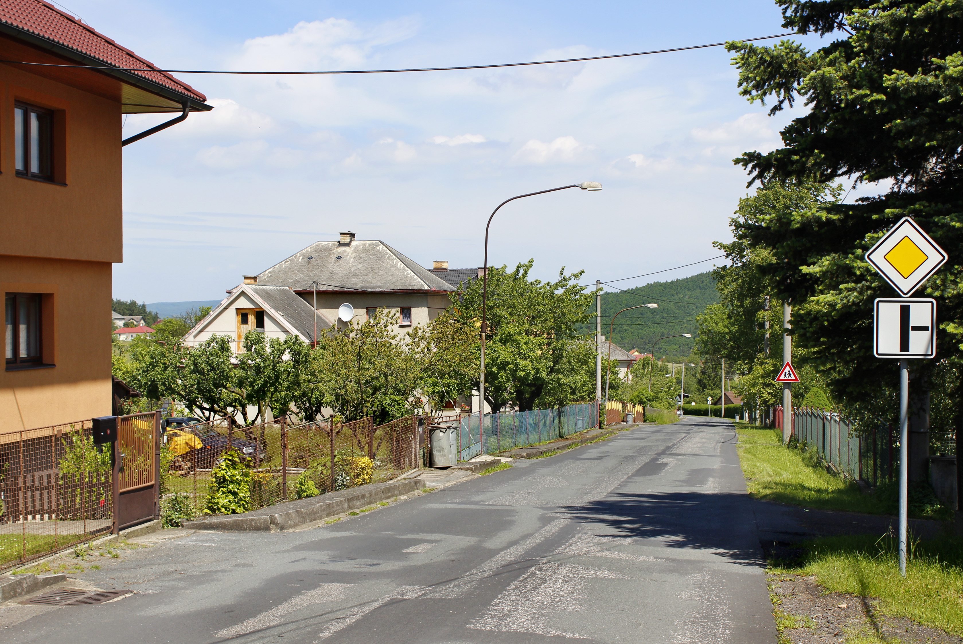 South part of Chaloupky village, Czech Republic